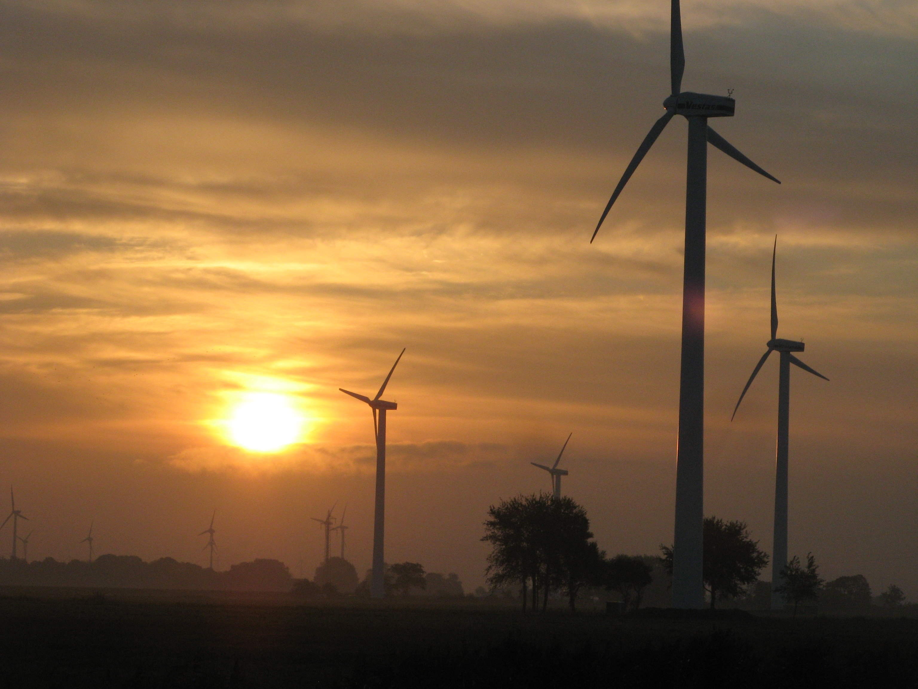 Wind turbines in Reinsbüttel, Holstein, Germany